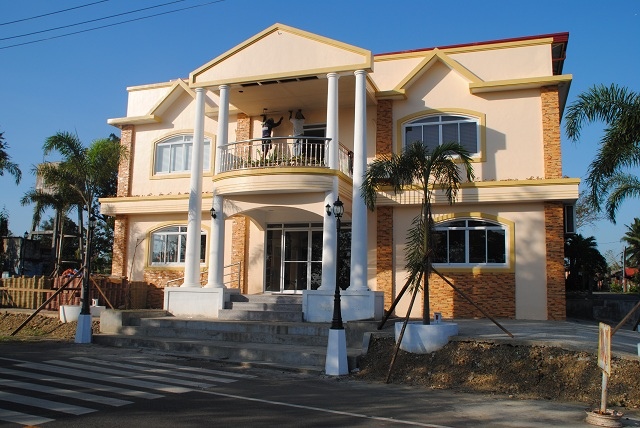 Dasol Municipal Building, Dasol, Pangasinan, Philippines